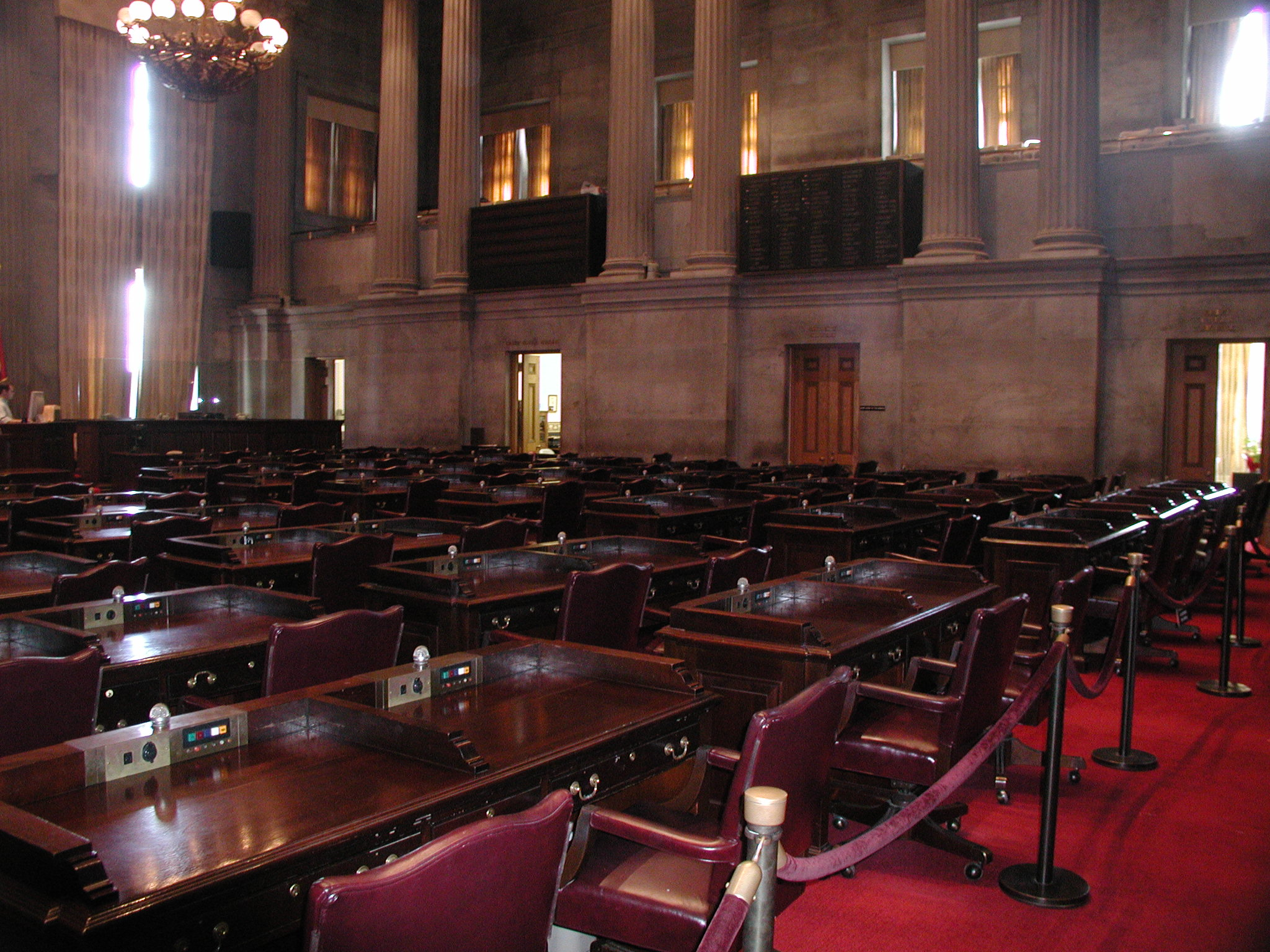 View from the house floor - Tennessee State Capitol